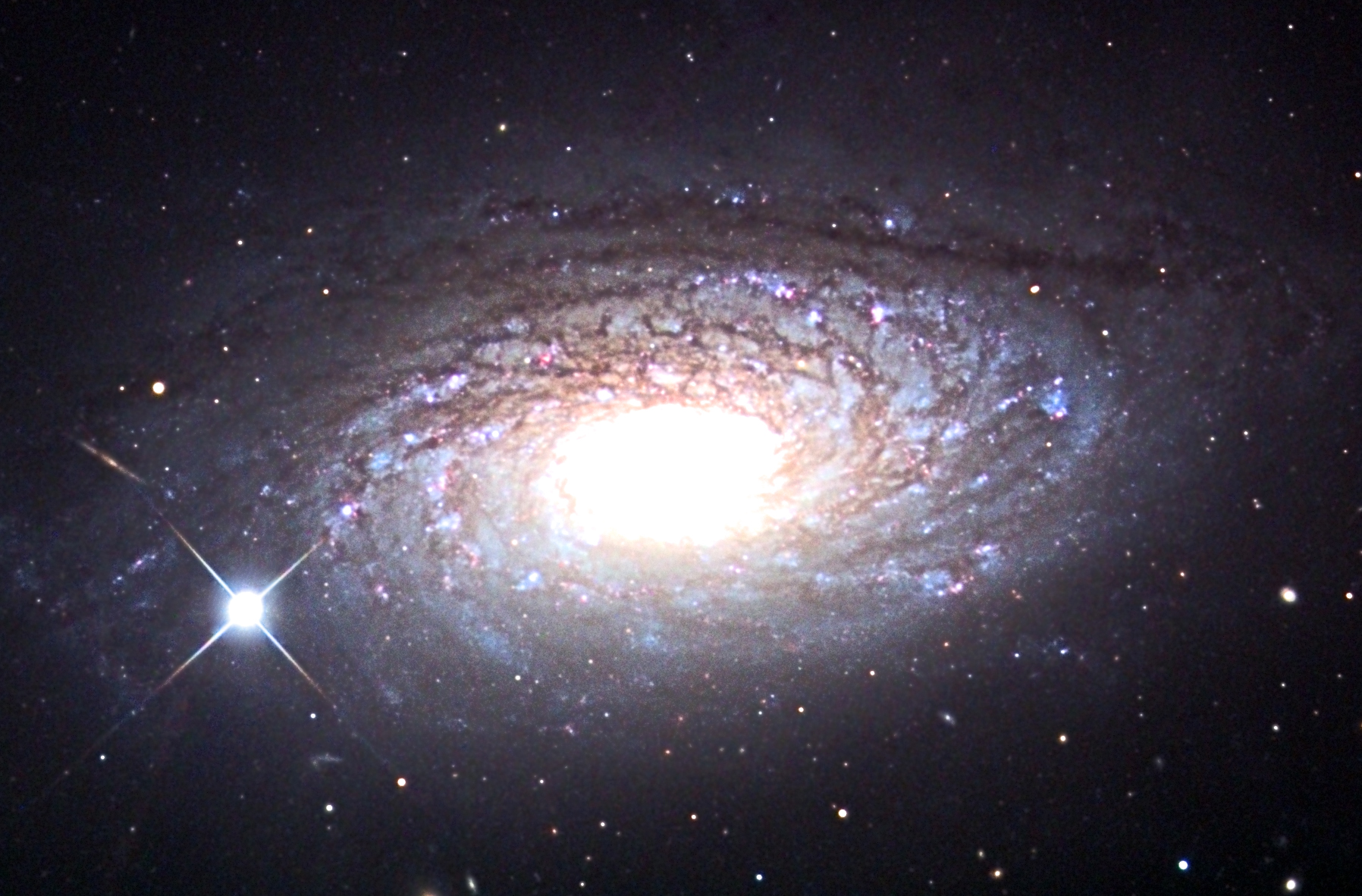 Messier 63 spiral galaxy, 24 inch telescope on Mt. Lemmon, AZ.